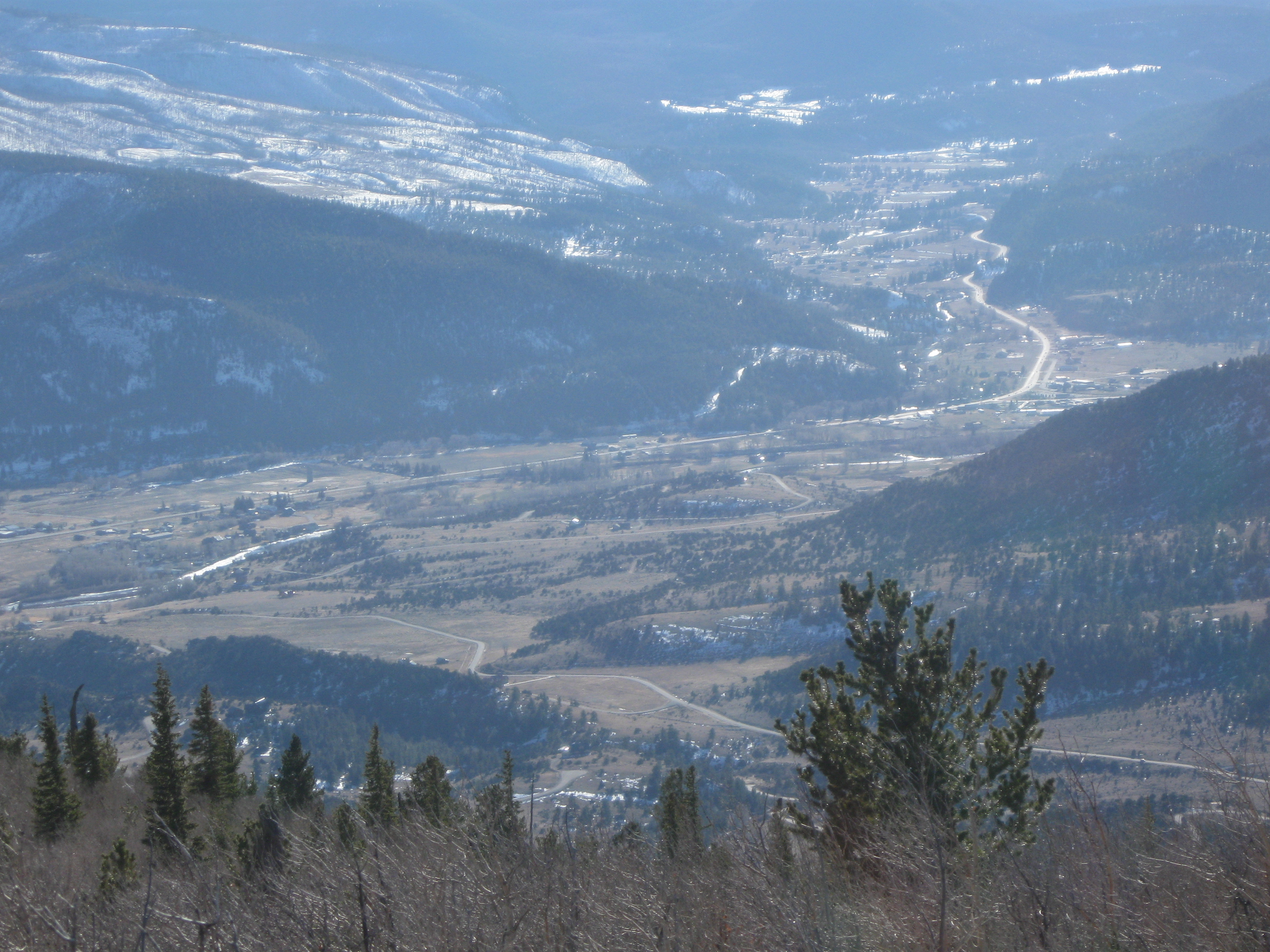 This is the town of South Fork, Colorado, as viewed from the summit of Agua Ramon Mountain. This photo is looking southwest. November 2011.